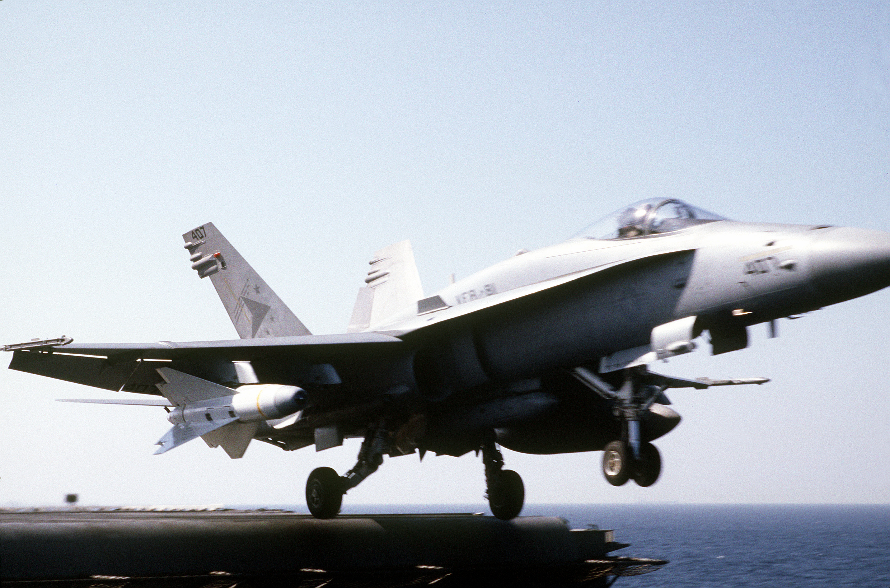 A U.S. Navy McDonnell Douglas F/A-18C-25-MC Hornet (BuNo 163498) of Strike Fighter Squadron 81 (VFA-81) "Sunliners" carrying an AGM-62 Walleye television-guided bomb is launched from the aircraft carrier USS Saratoga (CV-60) during Operation Desert Storm. VFA-81 was assigned to Carrier Air Wing 17 (CVW-17) aboard the Saratoga for a deployment to the Mediterranean Sea and the Red Sea from 7 August 1990 to 28 March 1991.